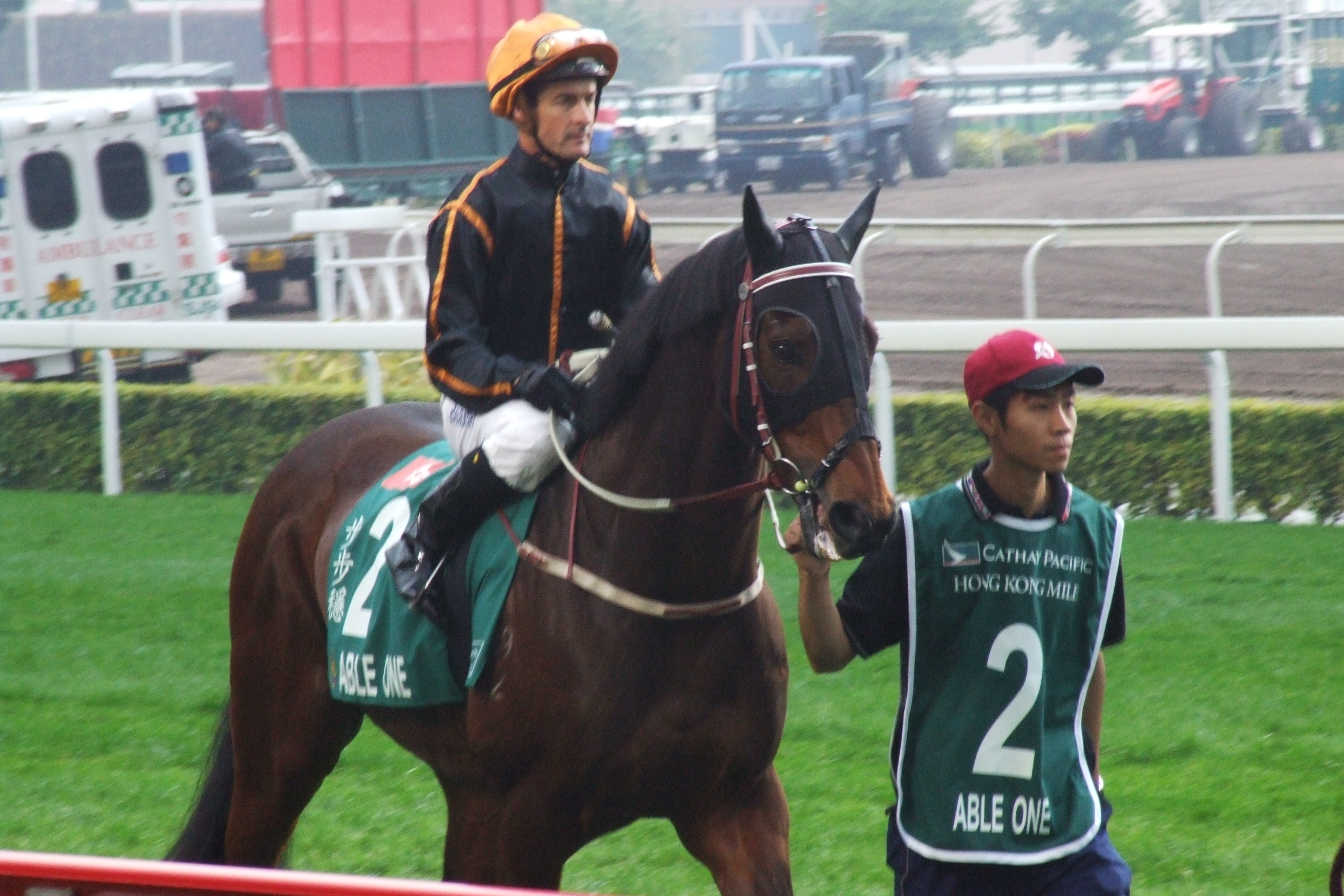 Able One 中文（香港）: 步步穩